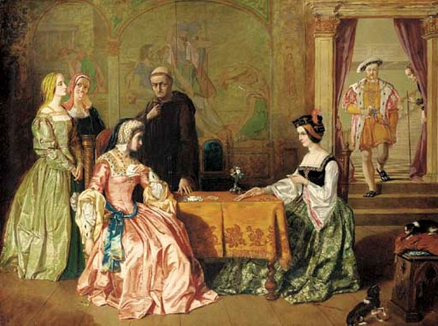 Katherine is depicted playing cards with Anne Boleyn. This is based on a fictional story first mentioned by George Wyatt in his work on the life of his grandfather, the poet Thomas Wyatt the elder and on Anne Boleyn.